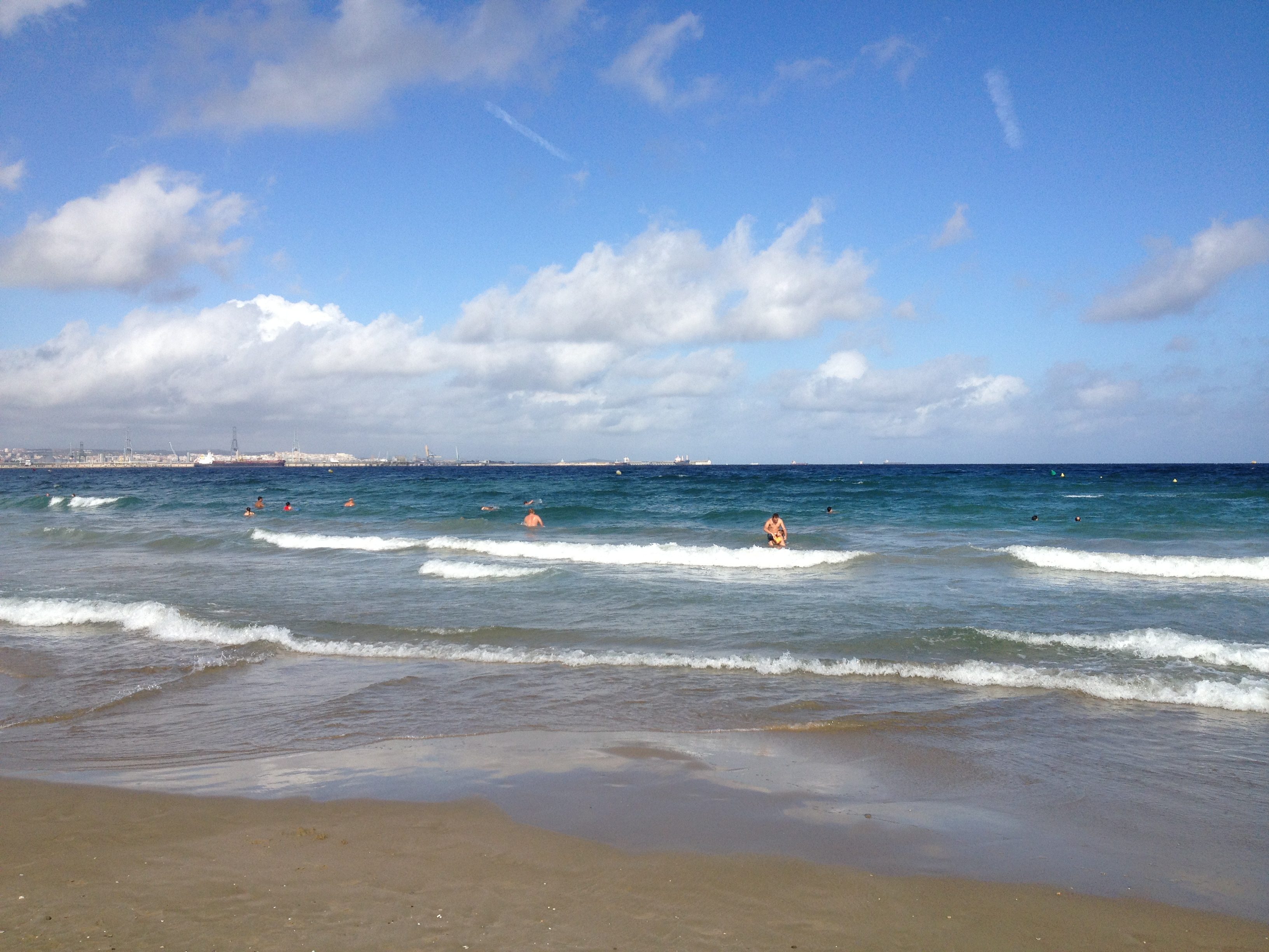 La Pineda beach. The view towards Tarragona harbour.